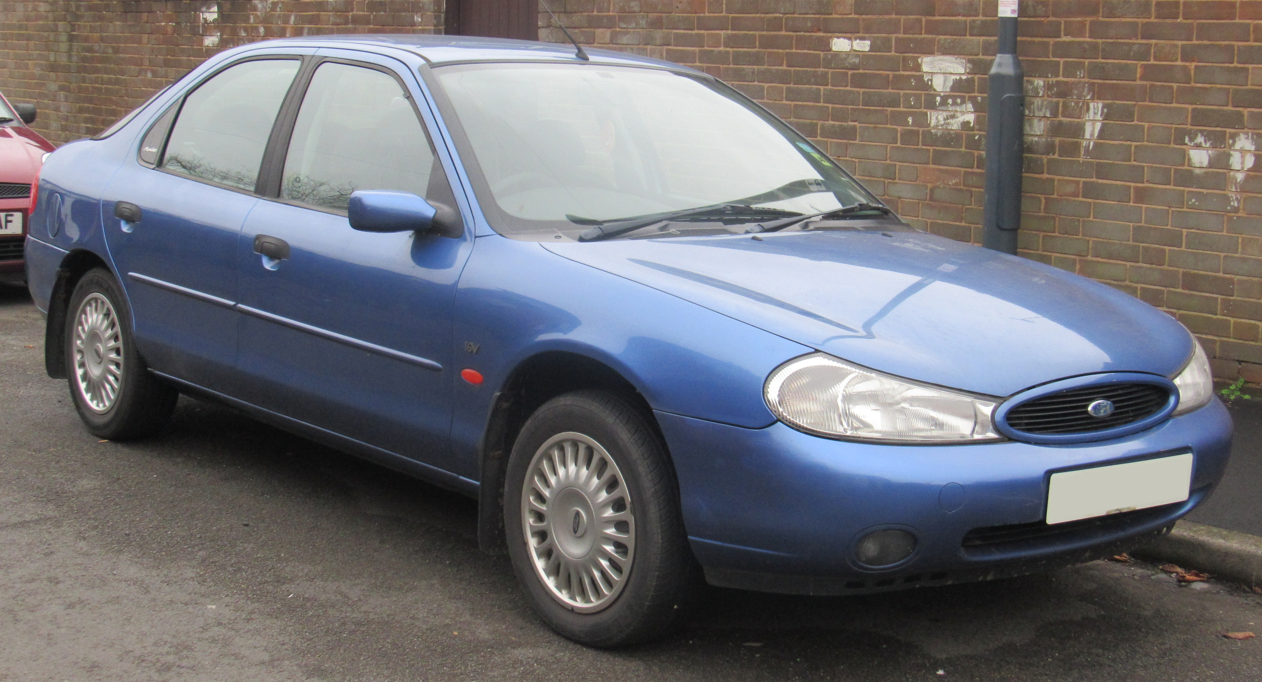 2000 Ford Mondeo LX 1.8 Front Taken in Warwick